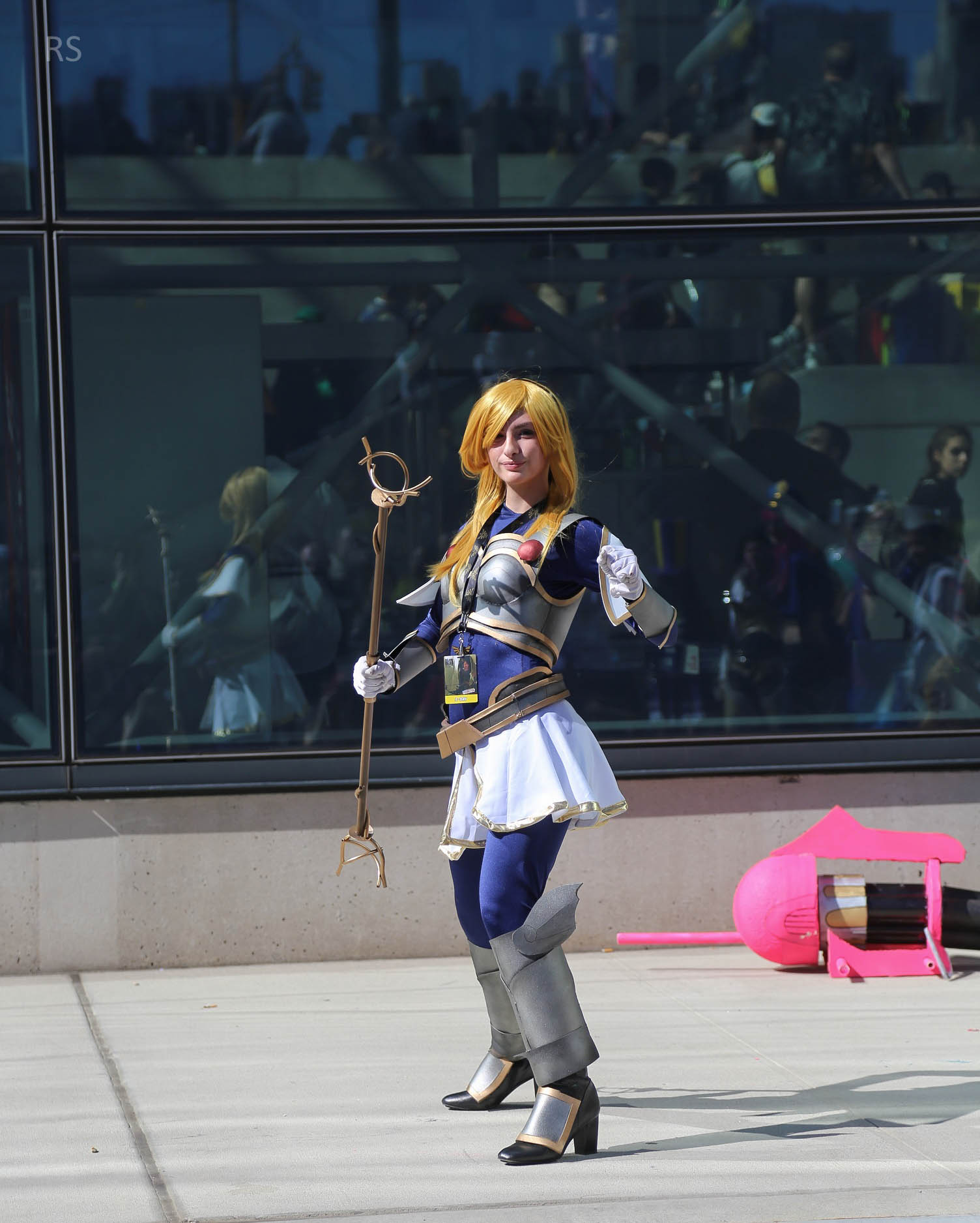 New York Comic Con 2015 - Lux Cosplay at the 2015 New York Comic Con (NYCC 2015).